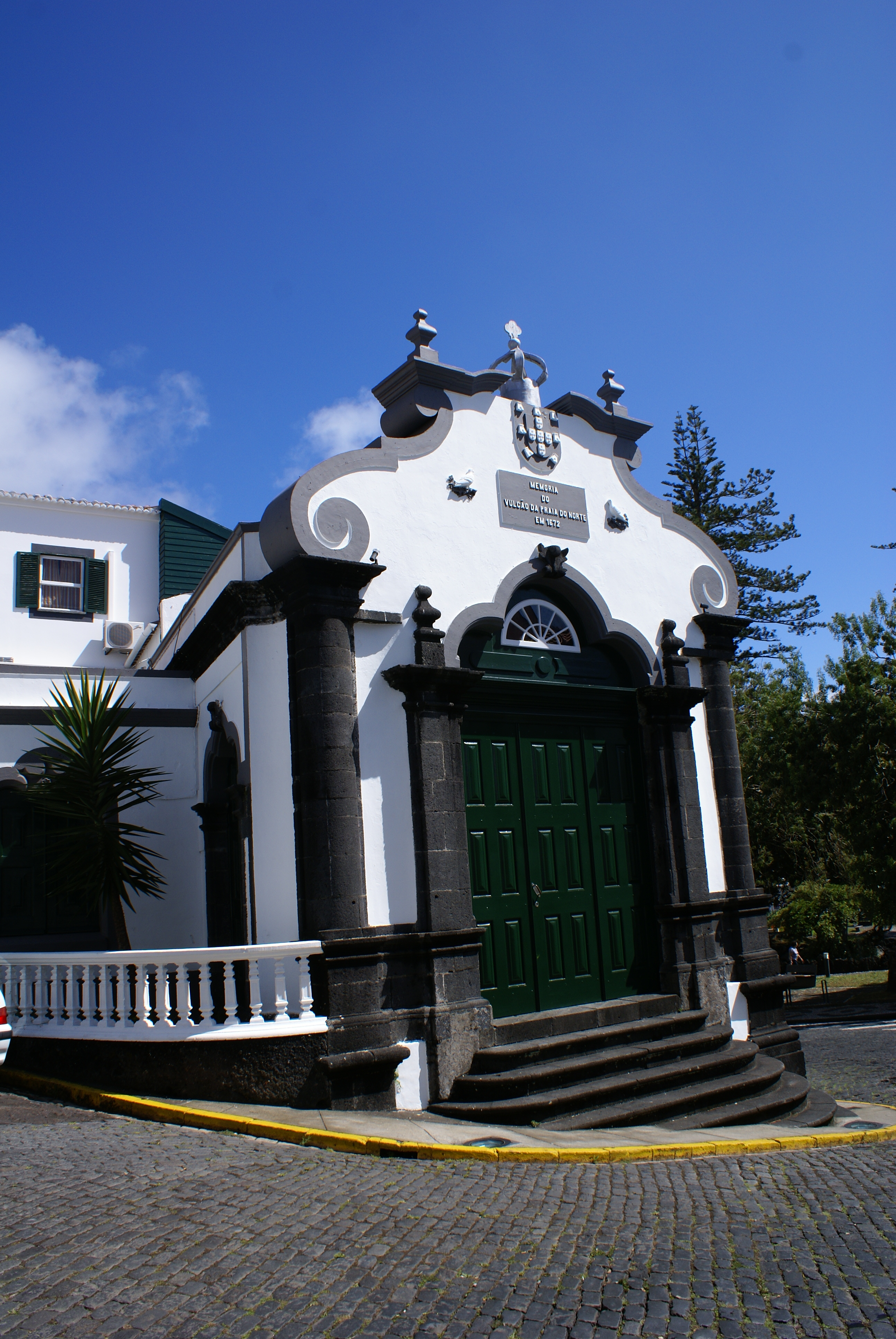 The Império do Espírito Santo dos Nobres, Matriz, Horta, Faial (Azores), Portugal